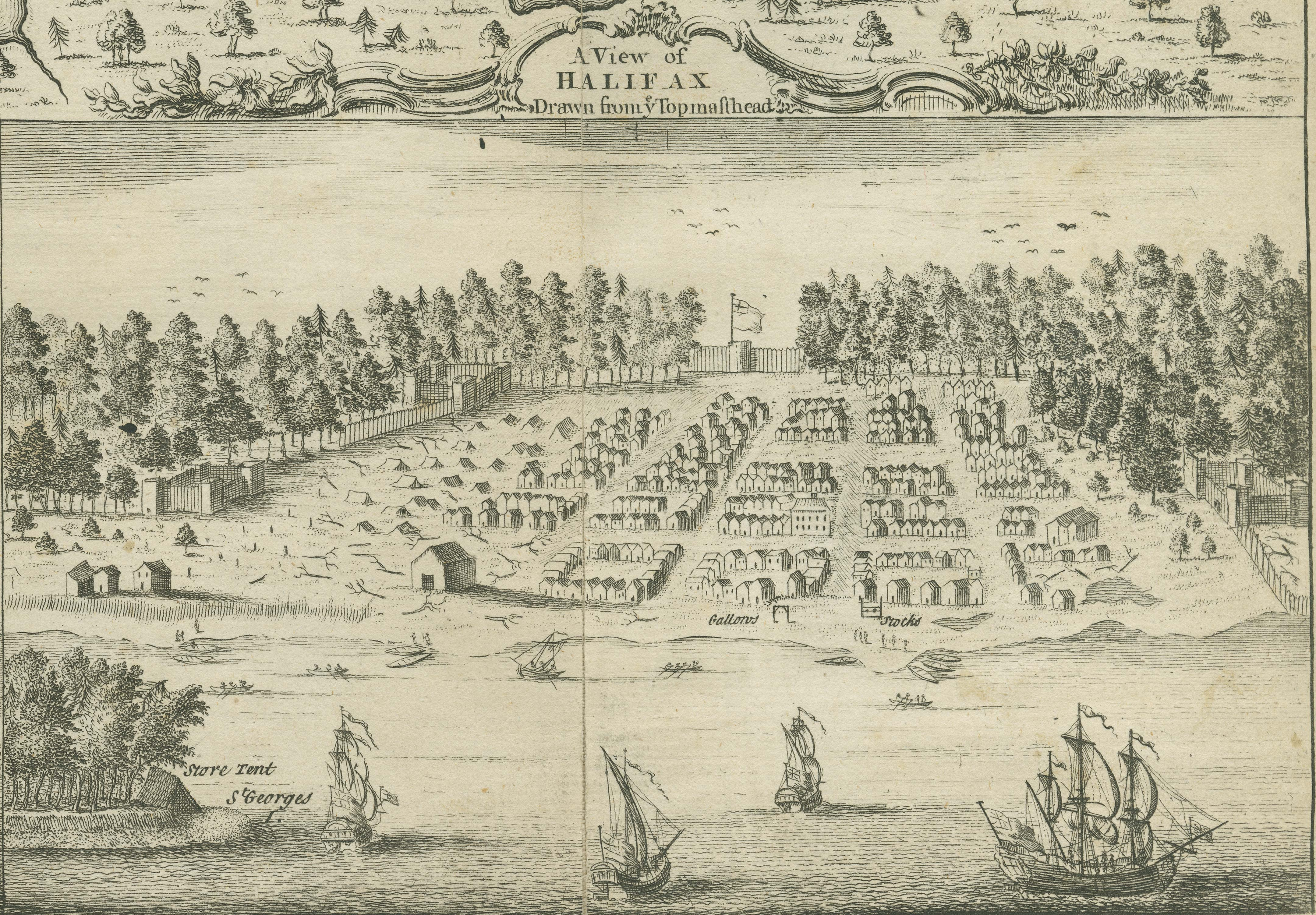 A view of Halifax from the topmasthead. This is the first known view of Halifax, sketched from the topmast of a ship in the harbour in 1749.